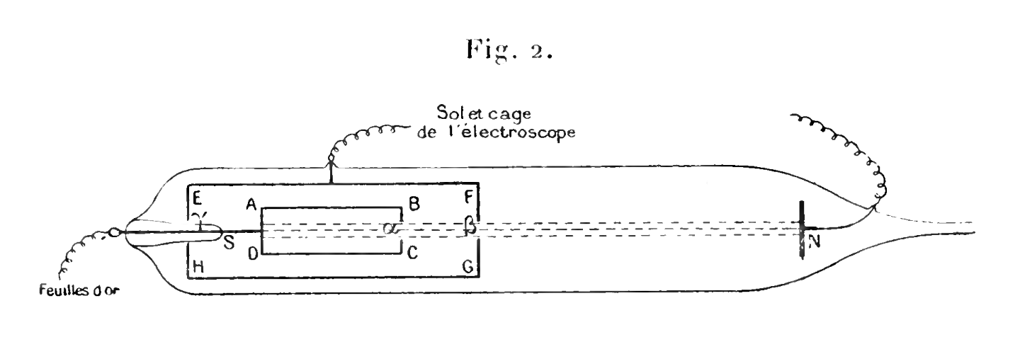 Figure 2 of the PhD thesis of Jean Baptiste Perrin. A Crookes tube specially constructed for demonstrating that cathode rays are negatively charged material corpuscules. The tube contains a cylindrical receptor ABCD, wired to an external electrometer and placed inside a larger cylinder EFGH used as Faraday shield and anode. N is the cathode.